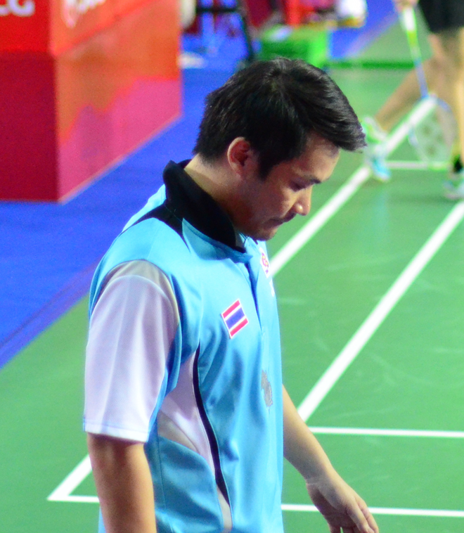 Patapol Ngernsrisuk